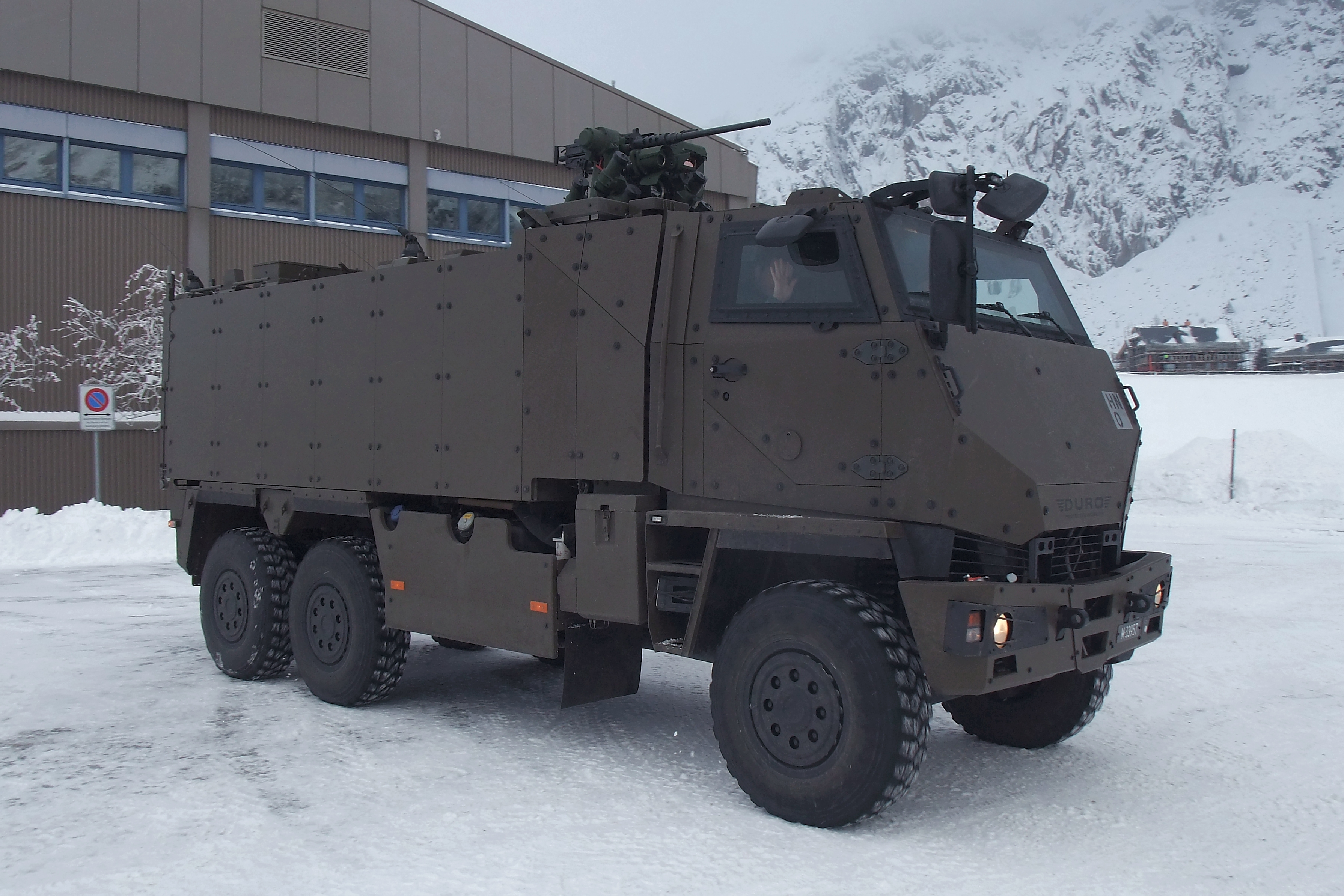 This heavily armored 6x6 troop carrier version of Duro has also a remote controlled 12.7mm machine-gun and smoke launcher. Andermatt, Switzerland, Nov 26, 2013.